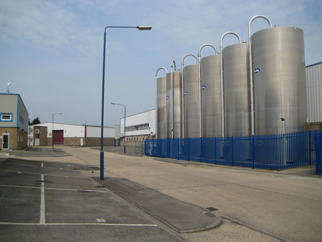 Greenford: Lyon Way Industrial Estate The Lyon Way Industrial Estate occupies a triangle of land entirely surrounded by railway lines. Here a group of six silos stand next to Unit 1B.